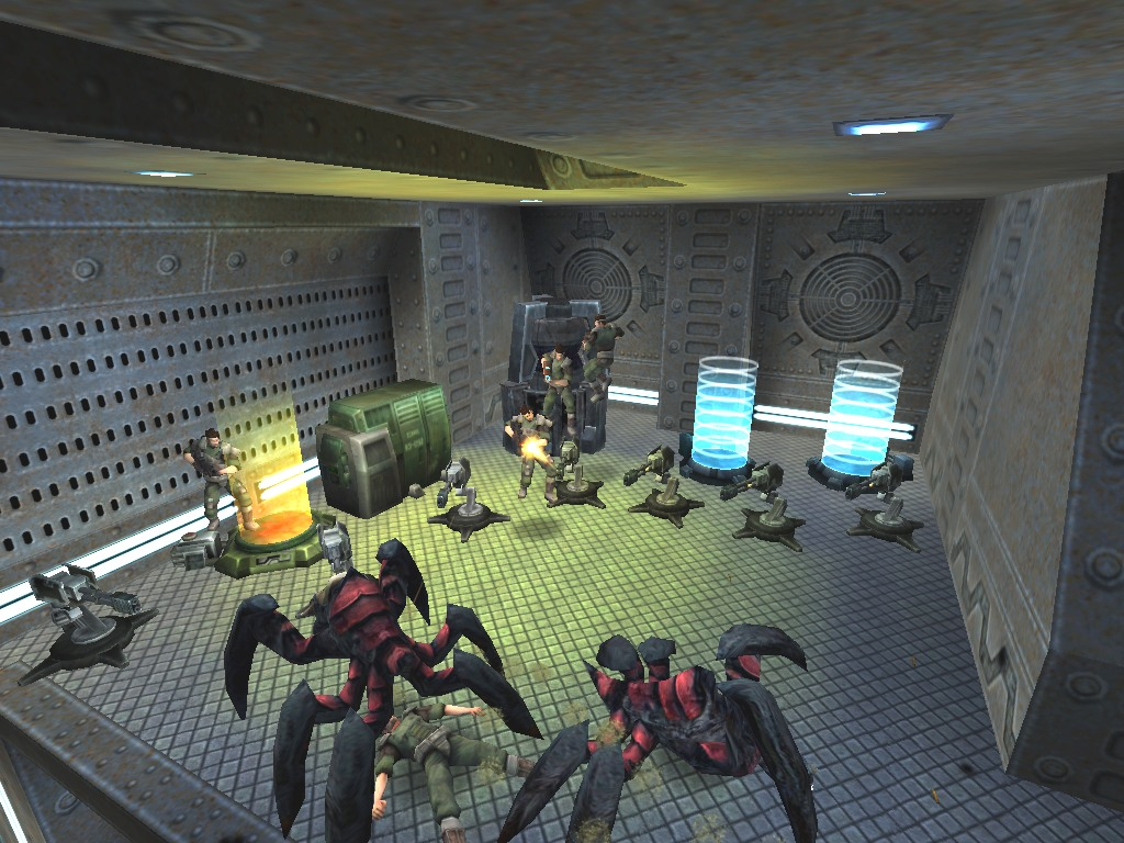 Screenshot of human base in game Tremulous attacked by dragoons